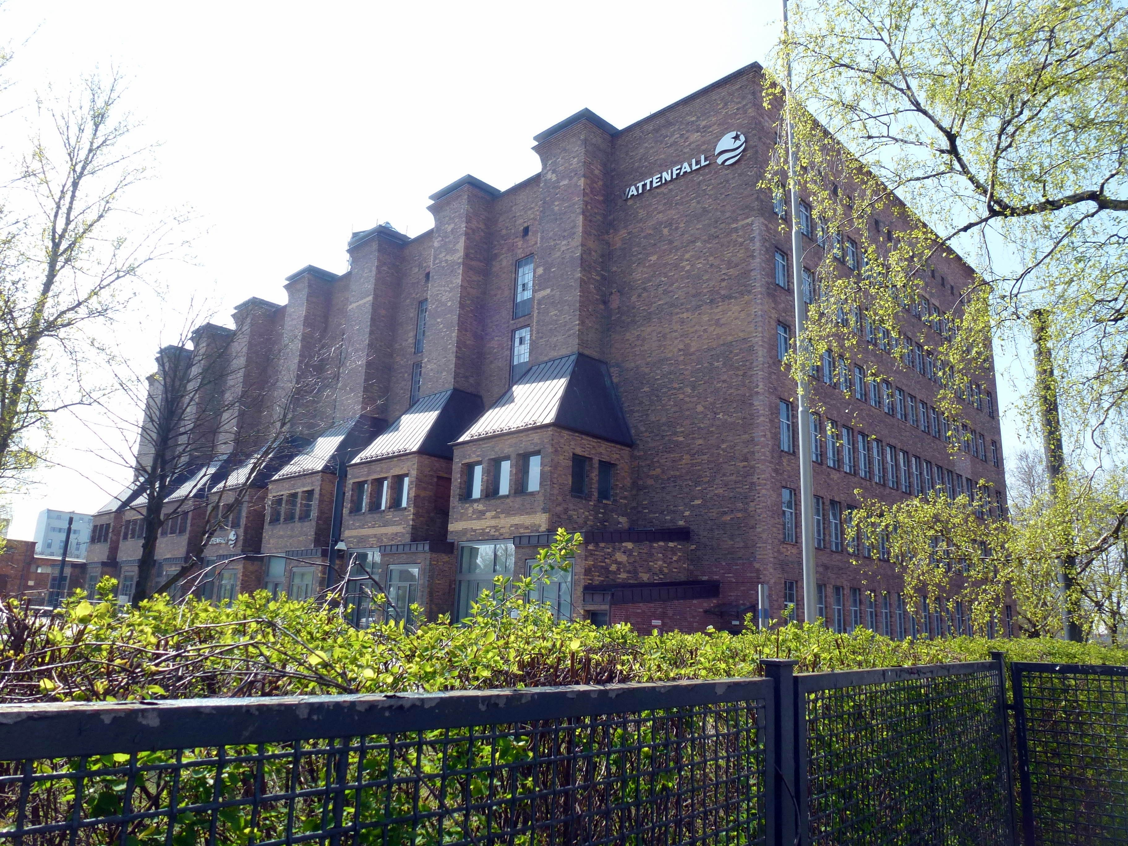 Wedding Sellerstraße Abspannwerk Scharnhorst